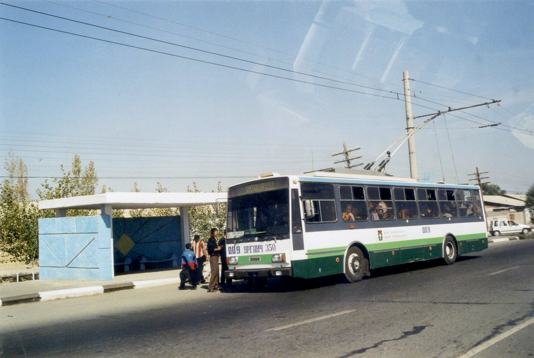 The Urgench Trolleybus system which at that time did not reach Khiva (perhaps for maintenance reasons). Shot from a moving vehicle. One of 9 Skoda 14Tr trolleybuses purchased on opening in 1997.